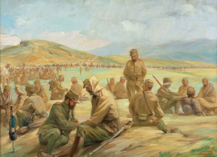 Campaign 1913